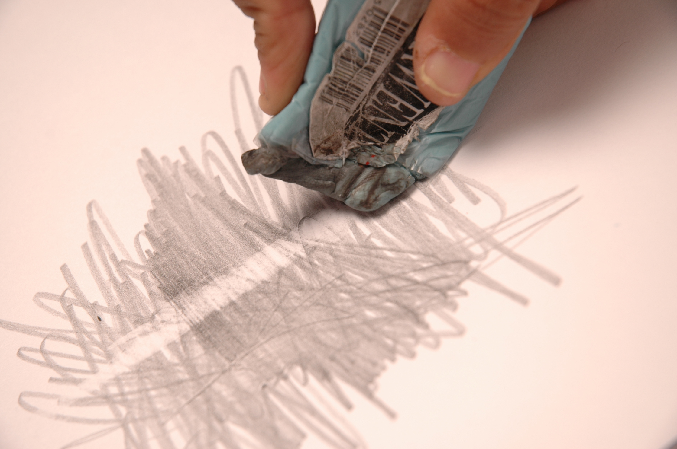 Kneaded Eraser. This picture shows how a kneaded eraser absorb graphite particles.